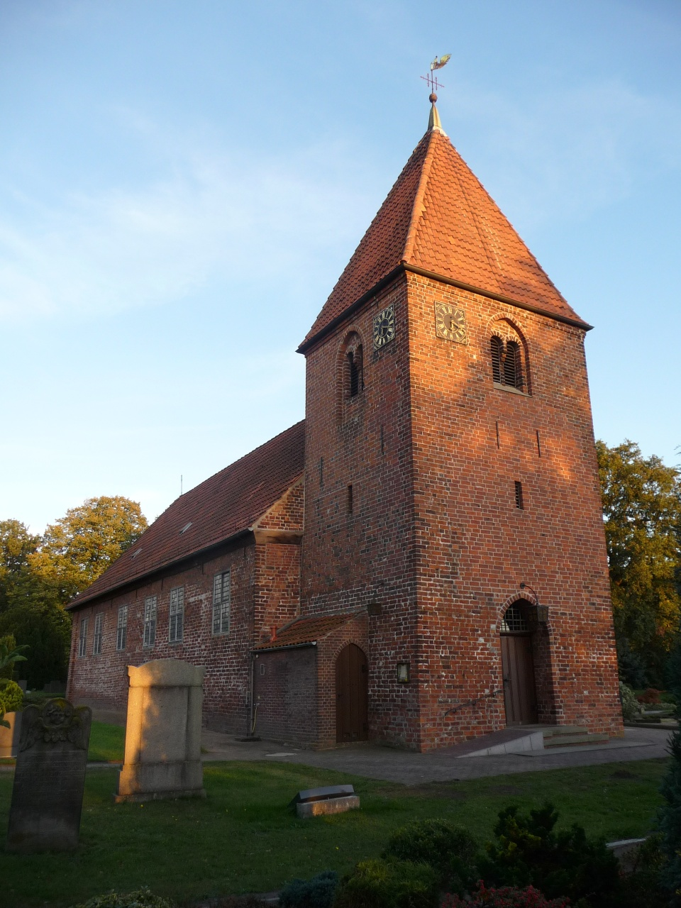 evang. church in Bremen-Wasserhorst